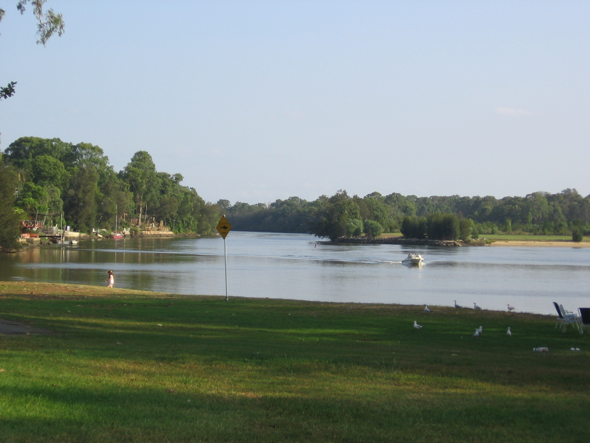 Georges River as seen from Garrison Point. Photo taken by myself on 11 March 2006.